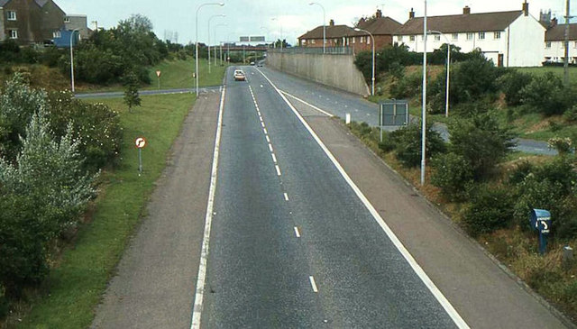 The Northway, Portadown (1). The Northway is a through-pass connecting the M12 350735 to the roads to Newry and Armagh. It was built, in part, on the bed of the GNR(I) Portadown/Armagh/Monaghan/Clones/Cavan line - closed in stages between 1957 and 1960 (although a stub remained in Portadown, as a siding to the Metal Box factory on the Brownstown Road until 1965. The level crossing hut remained for another few years). This is the view towards the centre of Portadown from the Brownstown Road flyover. Continue to 1597606.